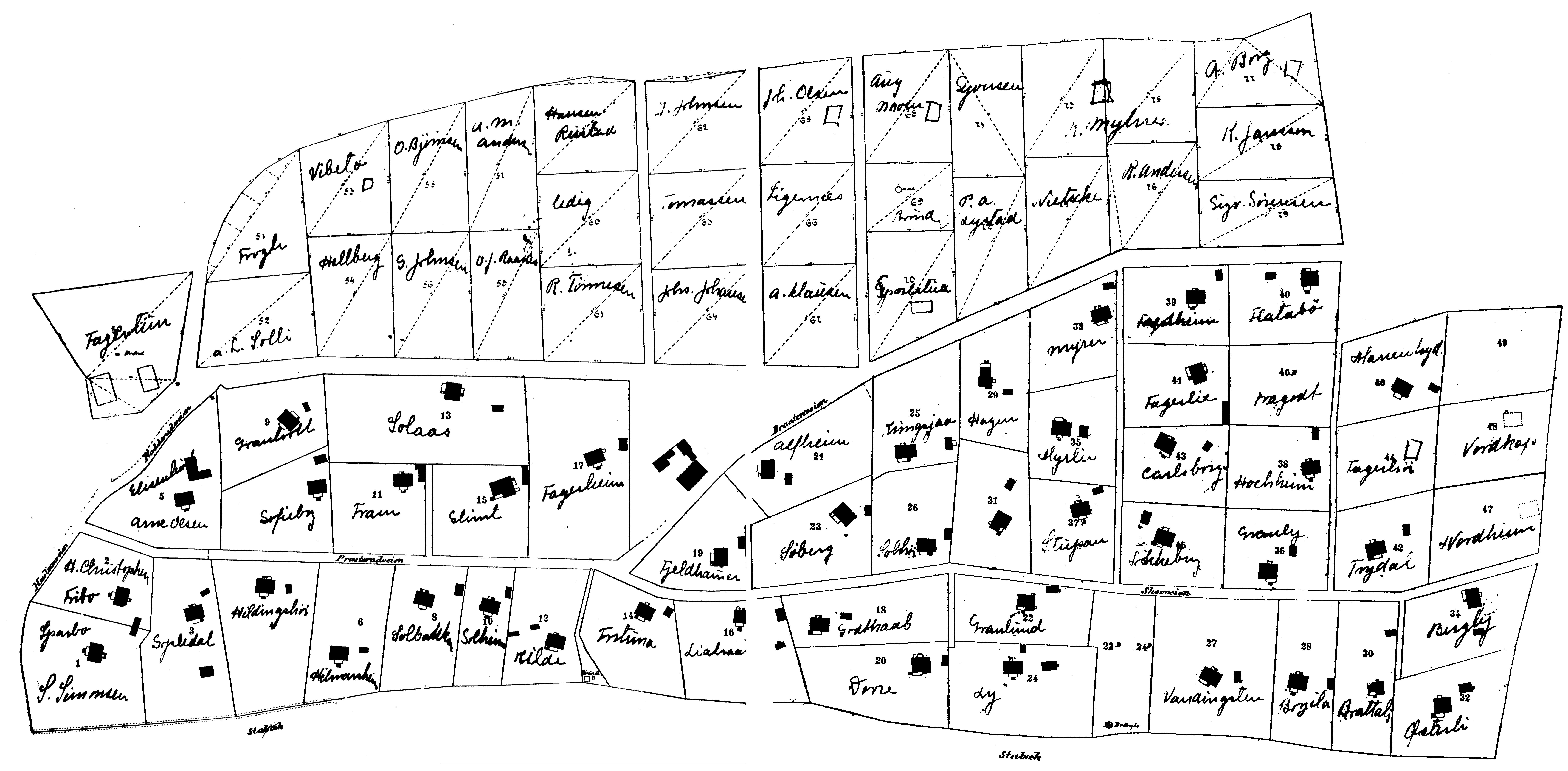 Map of Egne Hjem 1910